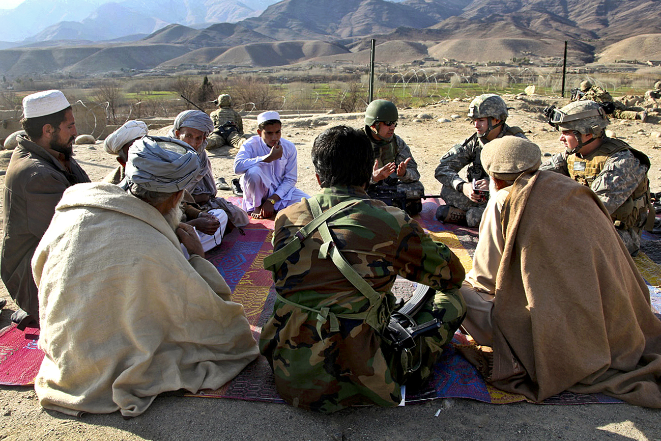 U.S. Army Staff Sgt. Nick McLaughin, center, and U.S. Army Sgt. Clayton Herman meet with village elders from Mangow village in Afghanistan's Laghman province, Jan. 21, 2011. McLaughin and Herman, psychological operations specialists, are assigned to the 319th Tactical Psychological Operations Company. U.S. Army photo by Spc. Kristina L. Gupton